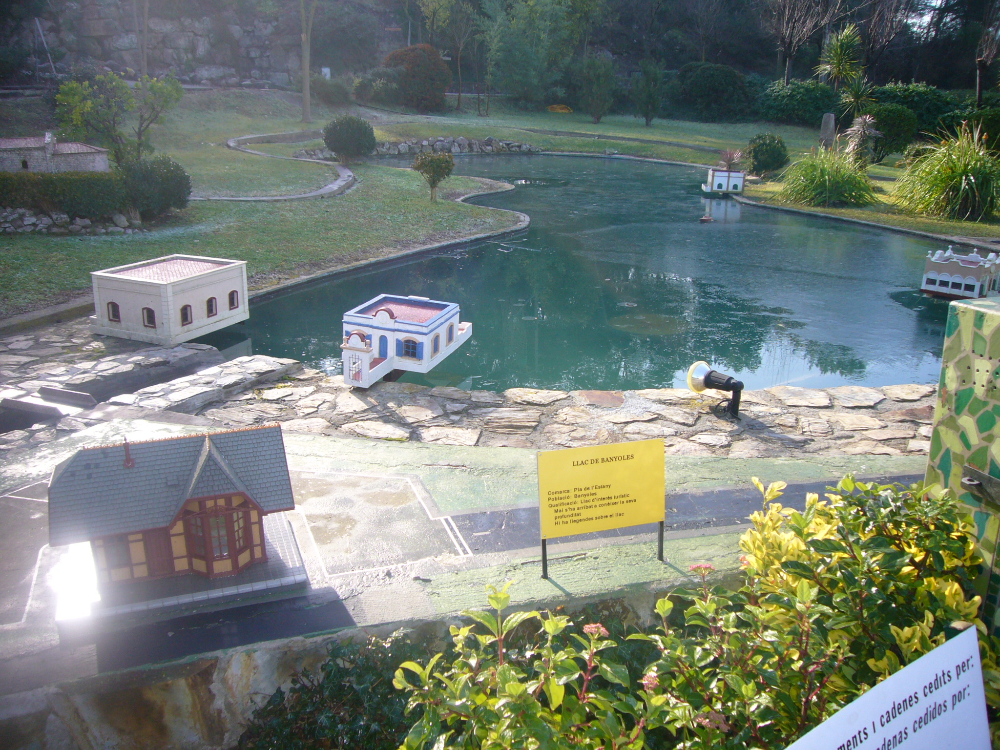 Scale model at the "Catalunya en Miniatura" miniature park : Banyoles lake